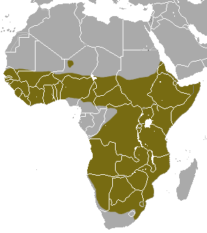 Slender Mongoose (Galerella sanguinea) range